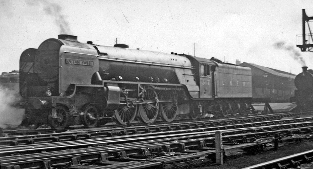 Thompson Class A2 Pacfic at Grantham Locomotive Depot. View SE in the Depot, which adjoined the Station on the ex-Great Northern East Coast Main Line. This is Class A2/3 No. 517 'Ocean Swell', only six months old. The occasion was one of my earliest Shed Visits and a very early photographic effort on my part. The engine had come down from Heaton Depot in Newcastle, where I had worked briefly in 1944.